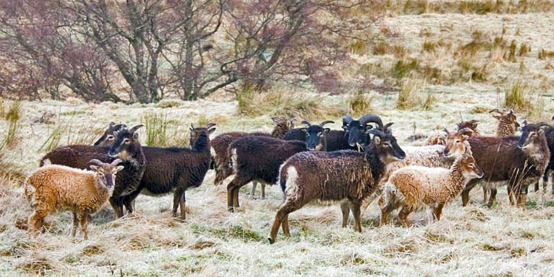 Soay sheep at Inverchor, Glenlivet